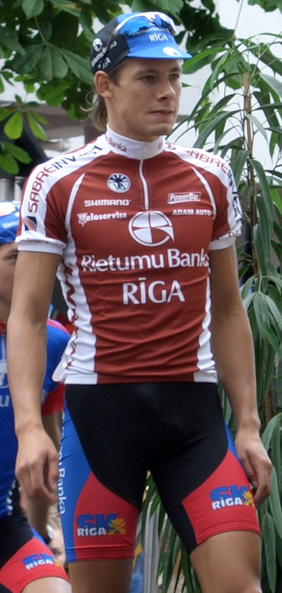 Aleksejs Saramotins